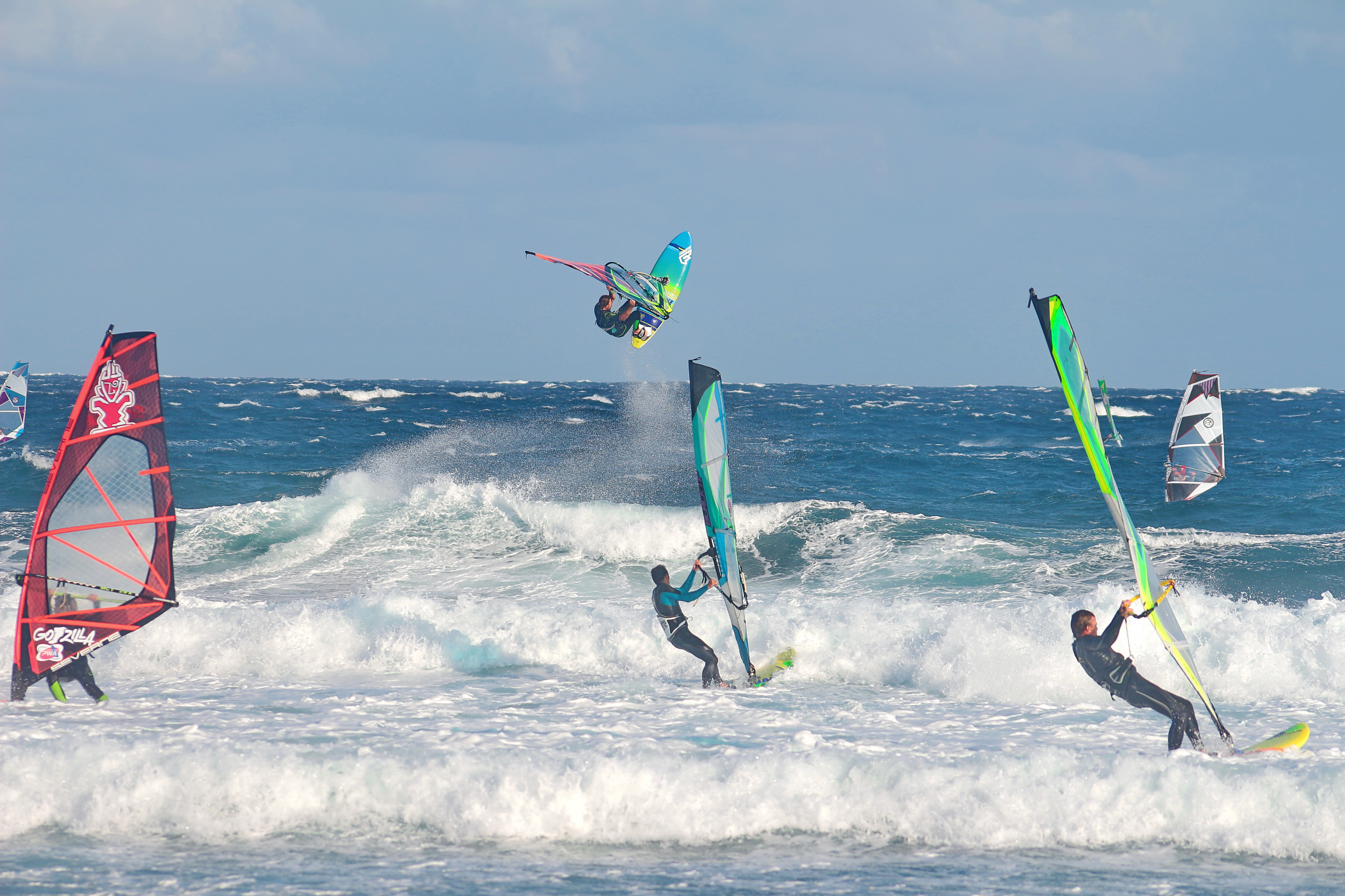 jumping windsurfing lulu